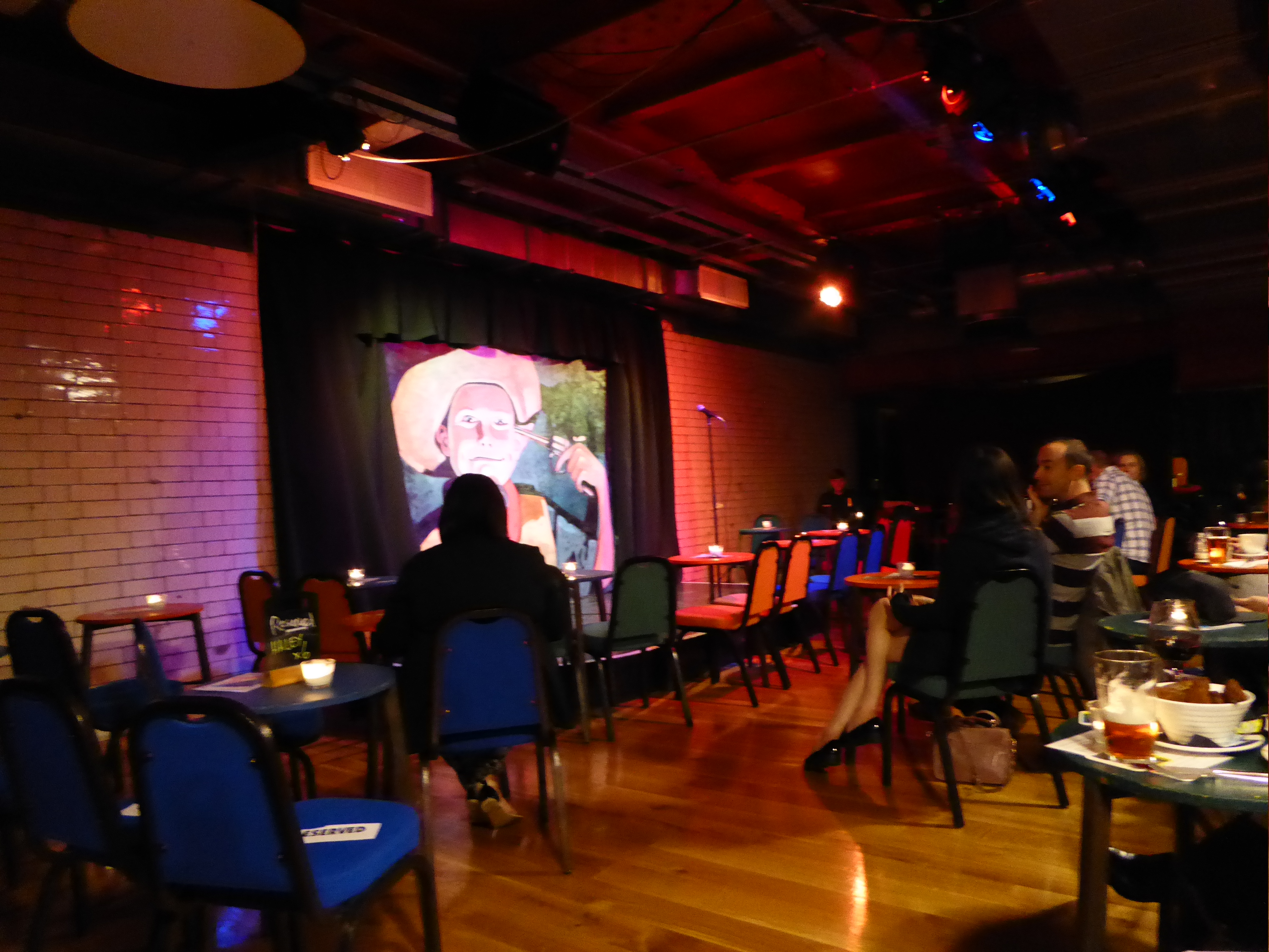 The Stand comedy club, High Bridge, Newcastle upon Tyne, Tyne and Wear, England, July 2015